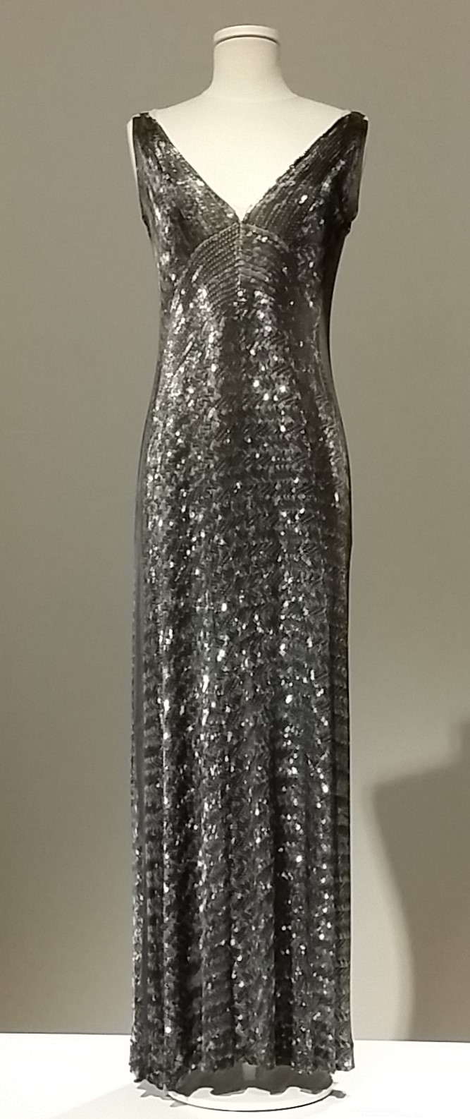 Maison Martin Margiela dress, Spring-Summer 1996. Viscose jersey printed with trompe l'oeil print of a sequinned evening gown.